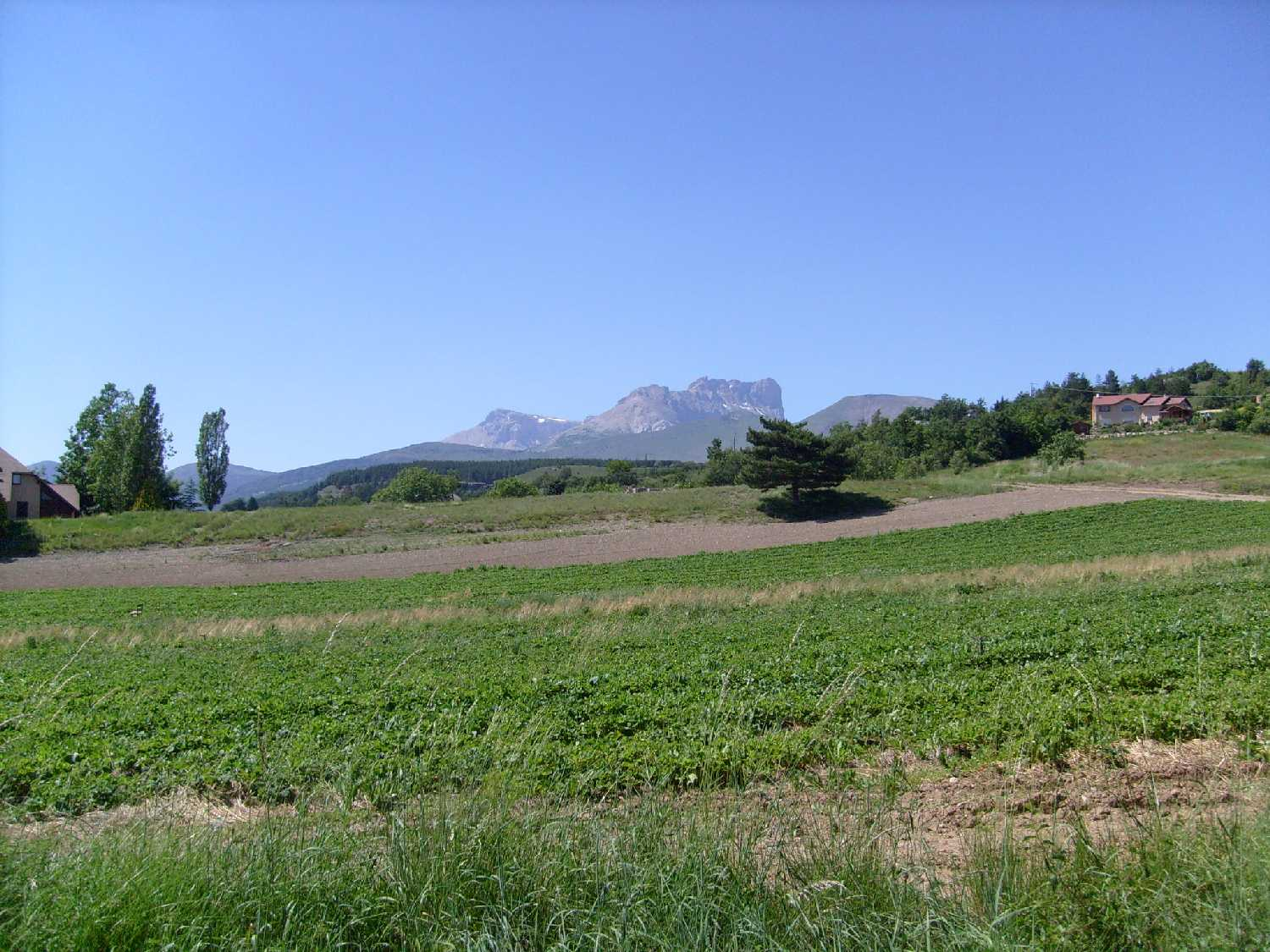 Fruit farming - strawberry - in La Freissinouse, Hautes-Alpes, France.